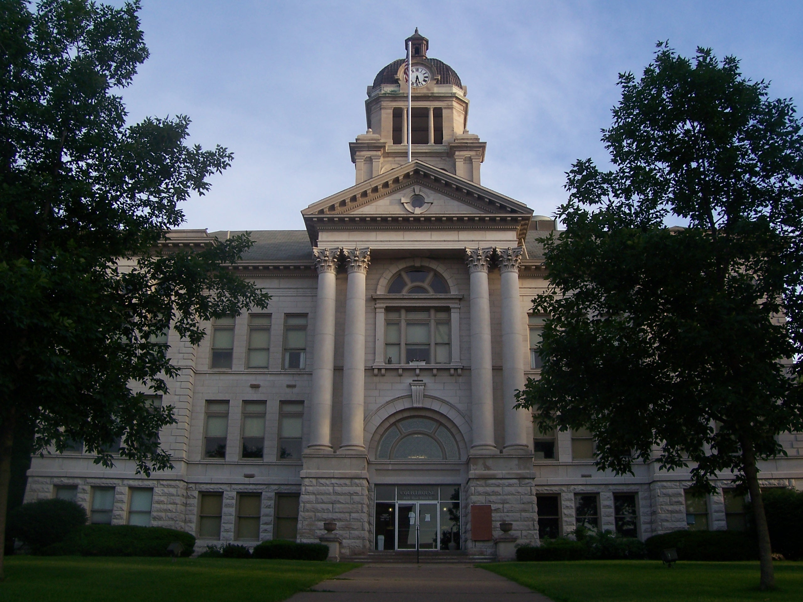 The Muscatine County court house. Photo by me.